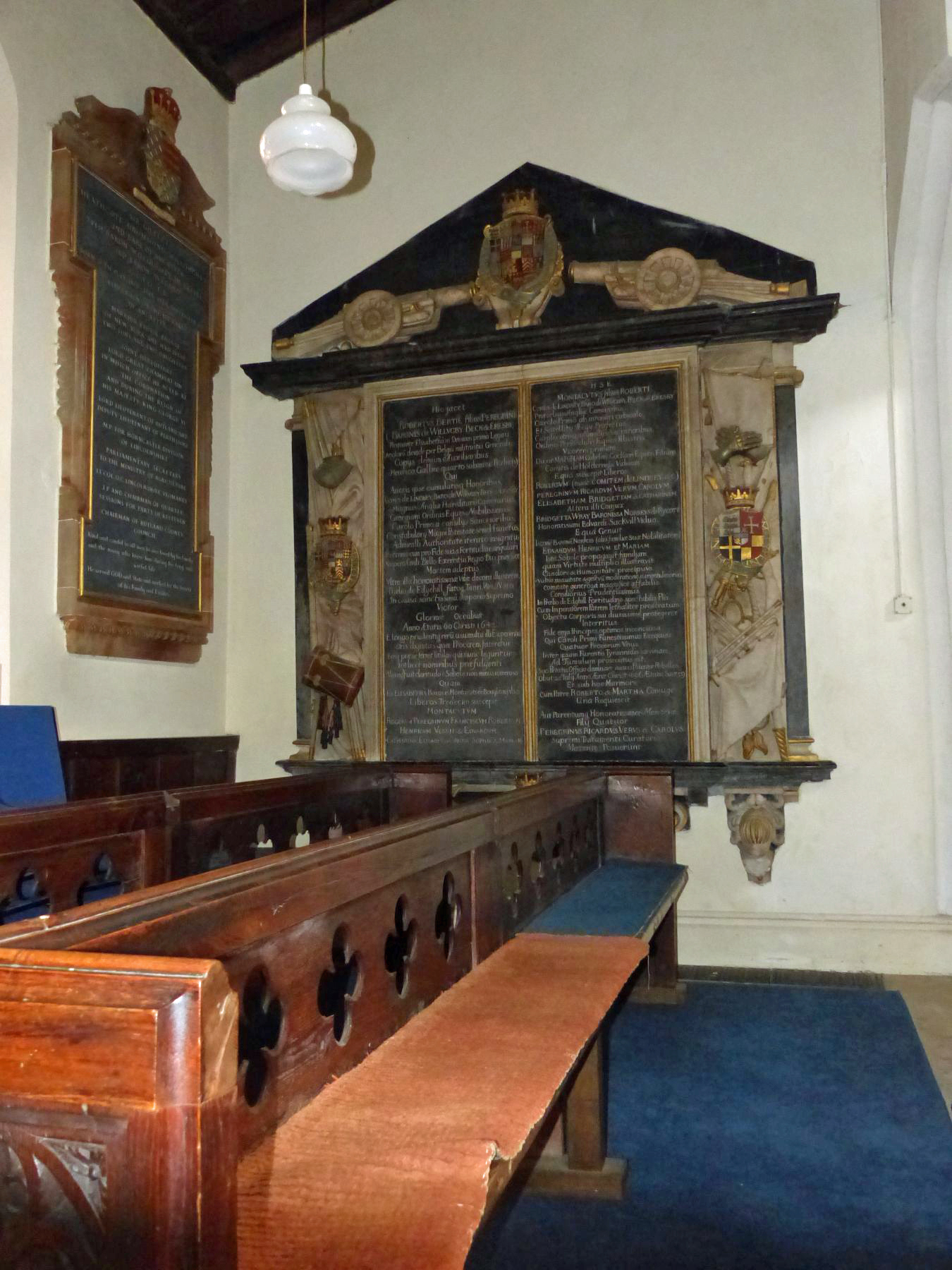 Wall memorial to Robert Bertie, 1st Earl of Lindsey, and his son Montague at the east end of the north aisle in the Church of St Michael and All Angels, Edenham, Lincolnshire. Lord Lindsey died at the Battle of Edgehill in 1642.